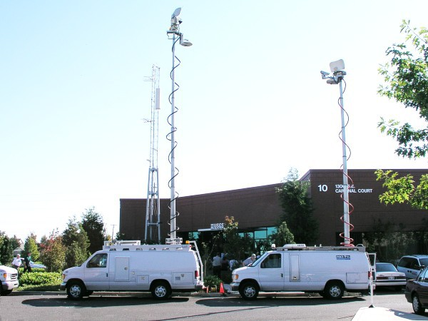 This photograph shows several television news organizations' production trucks in a transmitting position. These trucks are used for on location remote broadcasting of TV news stories. The microwave dishes on retractable telescoping masts are extended to transmit live video back to the studio. The microwave beam must have a line-of-sight path to the studio's antenna, so tall masts are needed to raise the dish above obstructions like buildings. The truck in the rear belongs to KPTV Portland. Photo taken by U.S. Government employees. [1]